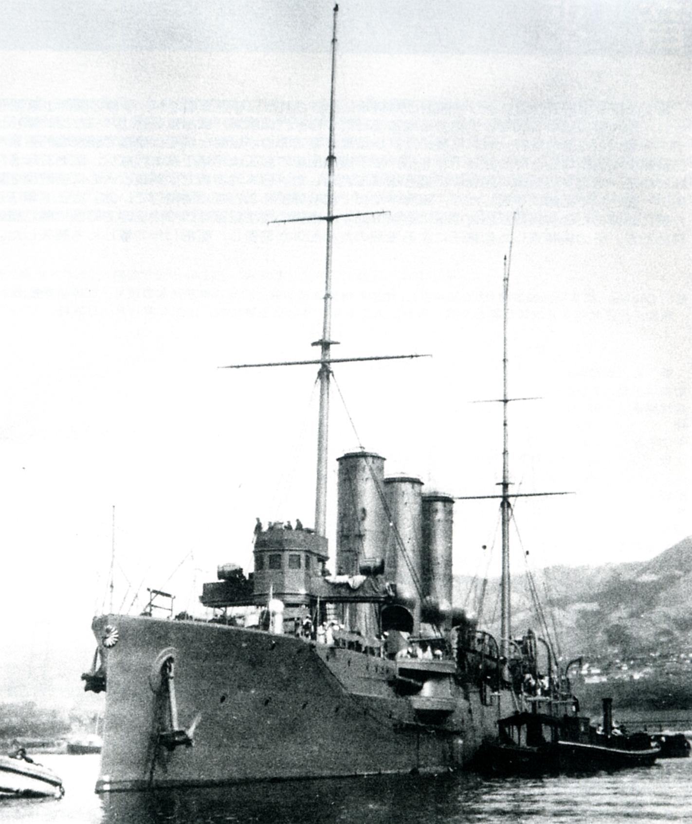 Japanese cruiser Tsushima in 1904, Kure